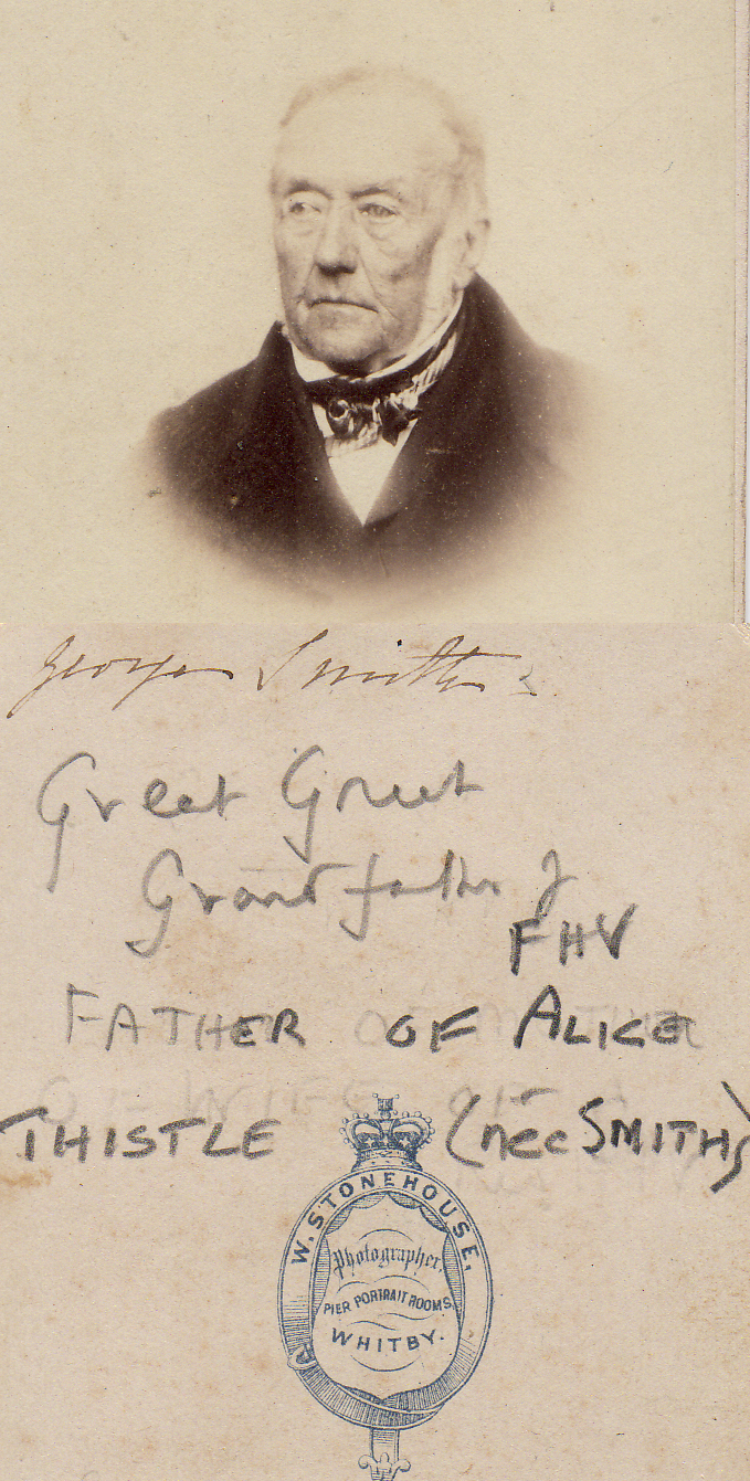 George Smith. Father of Alice Smith (born c. 1817 Whitby, North Riding of Yorkshire died 1893) who was, in turn, the mother of Rev Thomas Thistle (1853 -1936) and Hannah Elizabeth Vowles nee Thistle (1842-1903)